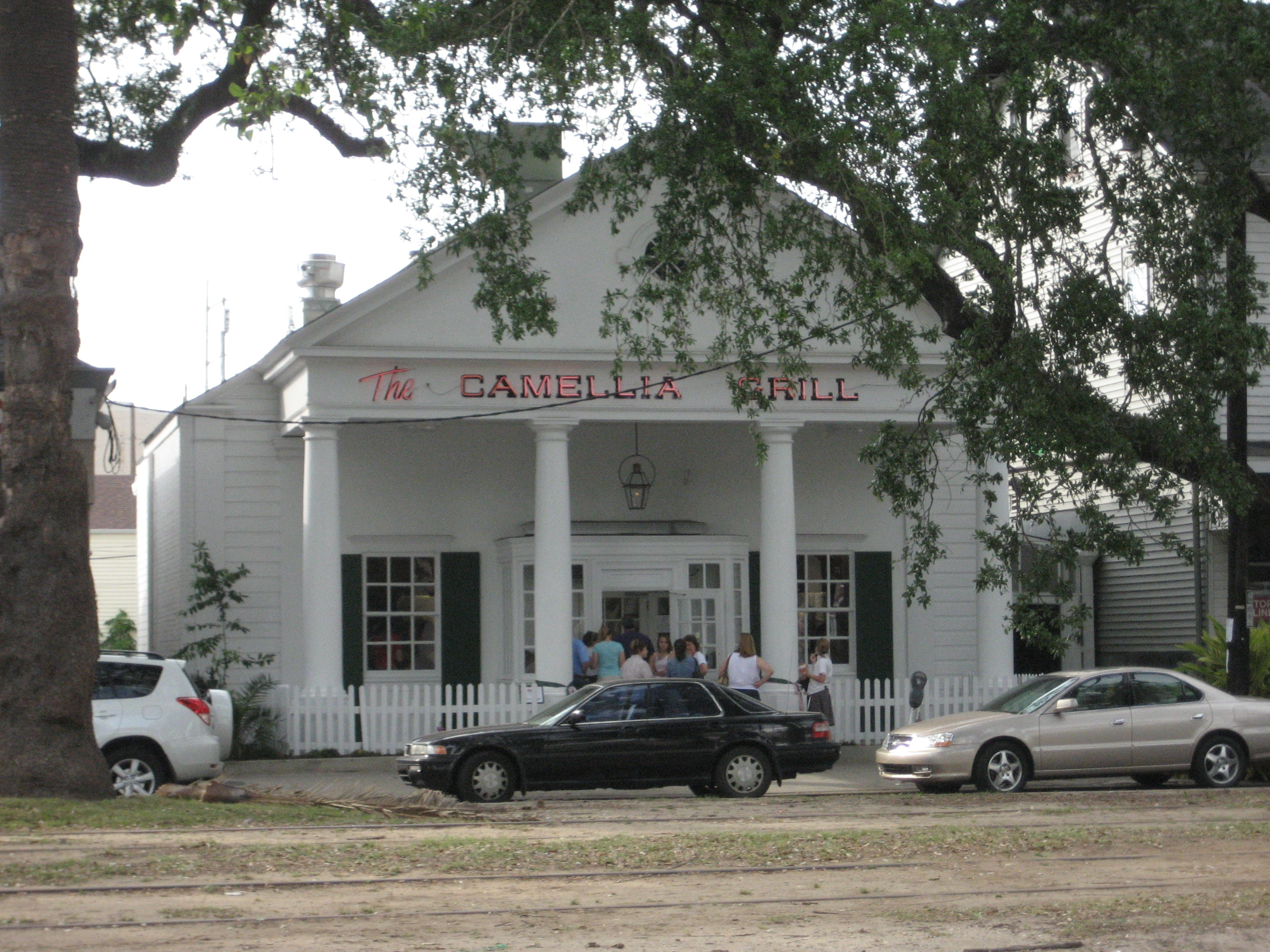 New Orleans: Locally famous casual restaurant "Camellia Grill" shortly after reopening for the first time since Hurricane Katrina in 2005. Line out door.